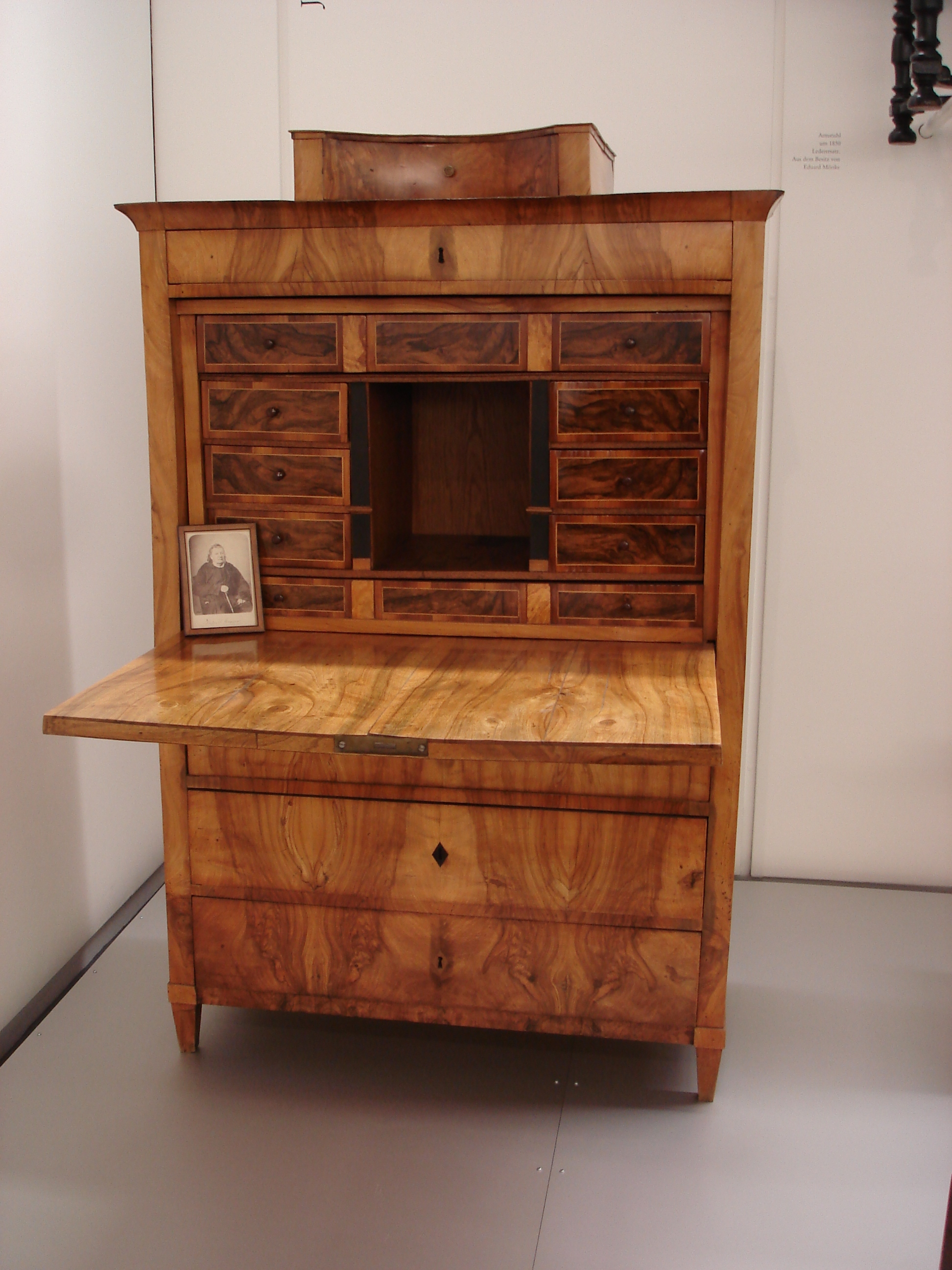 Justinus Kerner's desk in the Städtisches Museum Ludwigsburg